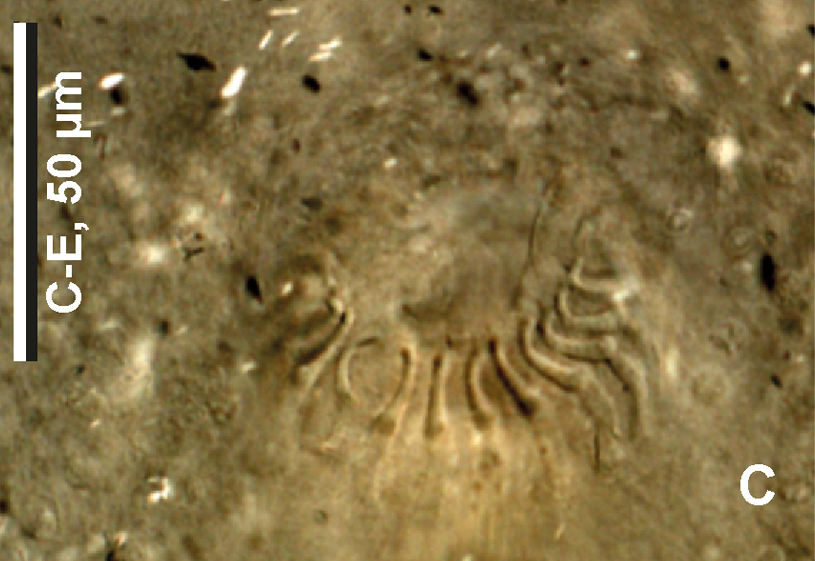 Male copulatory organ of Lethacotyle fijiensis Manter & Prince, 1953, holotype Male copulatory organ, focus 2, extracted from original composite plate Legend in published paper: Figure 2. Photograph of the holotype of Lethacotyle fijiensis Manter & Prince, 1953. Lethacotyle fijiensis Manter & Prince, 1953 urn:lsid: :act:DA367684-AAC2-​44D0-A8E8-64894AFA647A. Holotype, slide USNPC 48718. Original photographs taken by Patricia Pilitt, USNPC.